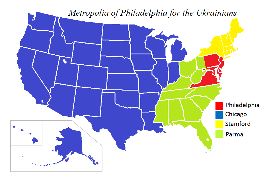 Map of the Metropolia of Philadelphia for the Ukrainian Greek Catholic Church, which encompasses the United States.